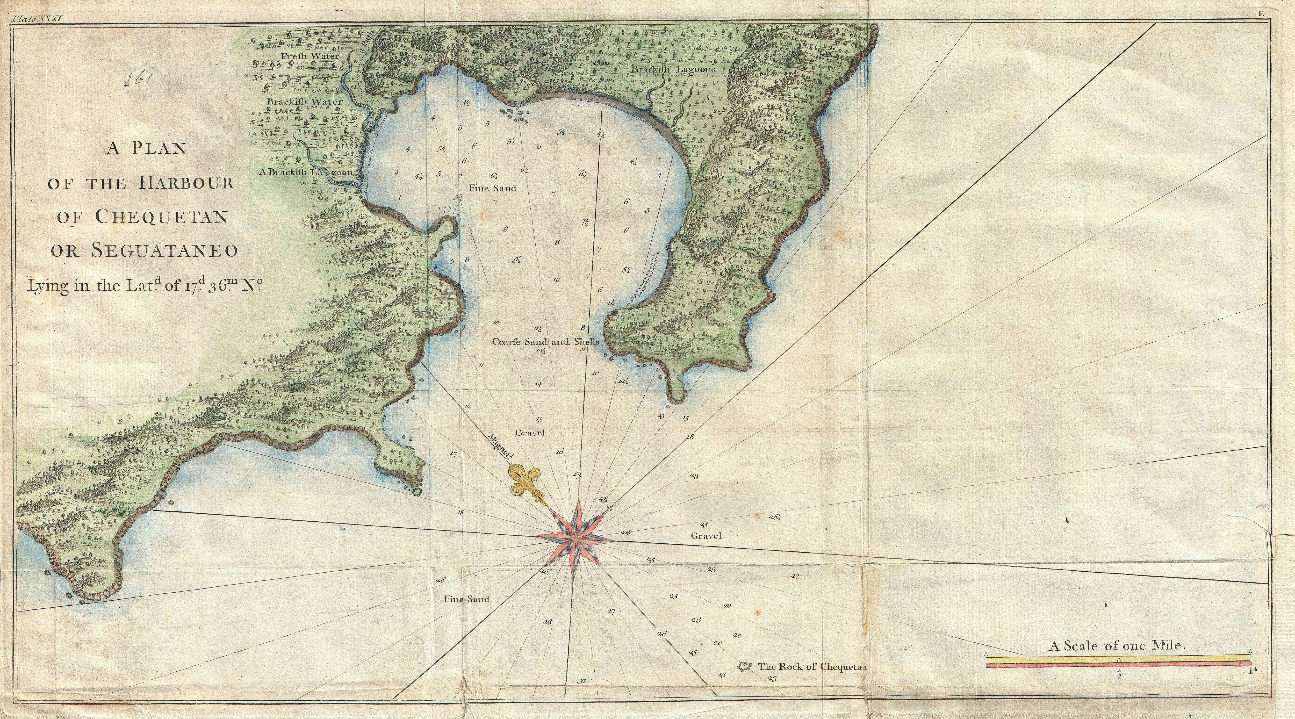 An extremely attractive 1745 map of the Mexican harbor of Zihuatanejo Bay by George Anson. Today Zihuatanejo is a stunningly beautiful resort area on the Pacific in the state of Guerrero (about 250 km north of Acapulco). This area was originally named Cihuatlán in Aztec, which means “Place of Women”, referring to the matriarchal society that dominated the region in pre-Columbian times. Details the harbor beautifully showing mountains, waterways, and trees as well as offering detailed depth soundings and nautical references.